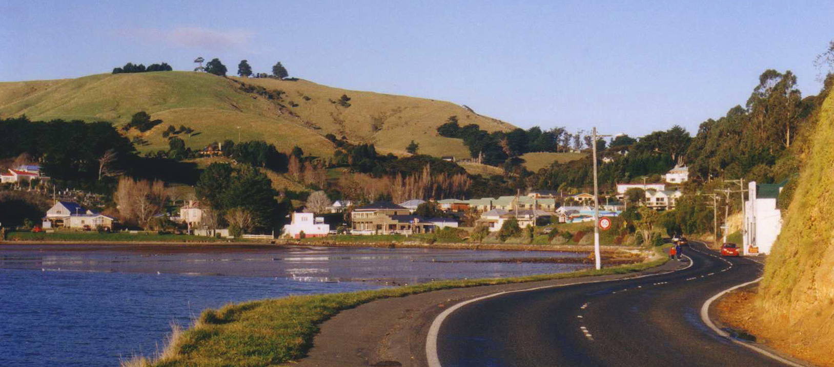 Portobello, New Zealand. Photograph taken by James Dignan, June 2005.